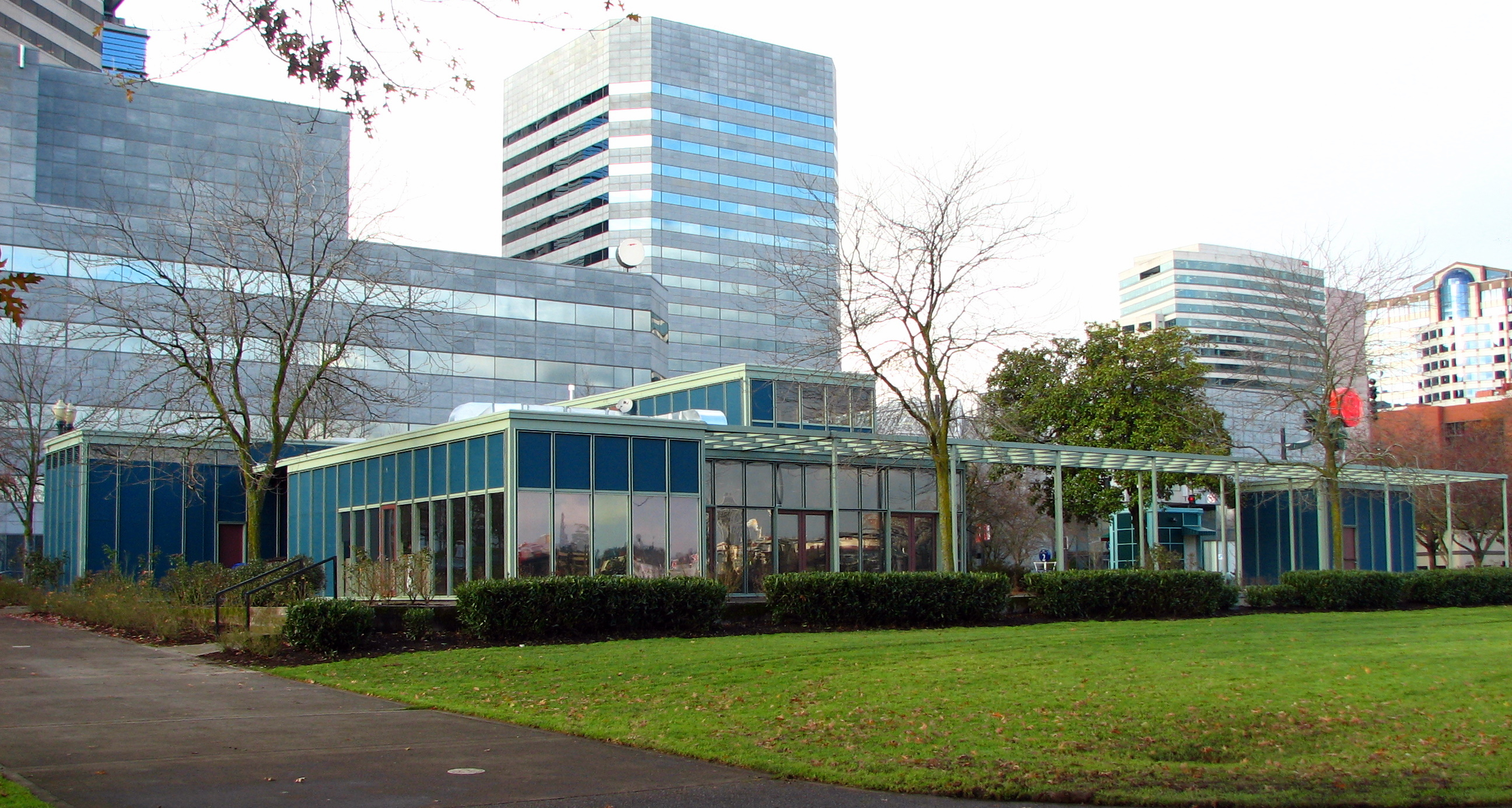 The historic Visitors Information Center (built 1948), located at 1020 Southwest Naito Parkway in Portland, Oregon, United States, is listed on the US National Register of Historic Places. Clearly visible at the left side of the image are the three "pavilions" pinwheeling around the glassed-in lobby.